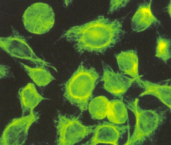 HEp2 Intermediate filaments, anti-actin antibodies